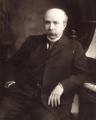 Isidor Philipp (1863-1958), French composer (born Budapest, Hungary)